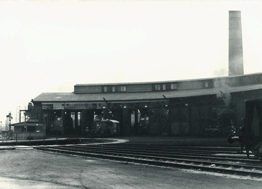 Wanne Eikel Depot, 02/74. At the time of my visit it housed Class 050, 043 & 044 2-10-0's and a few electrics. Scanned photograph taken with an Exacta camera.